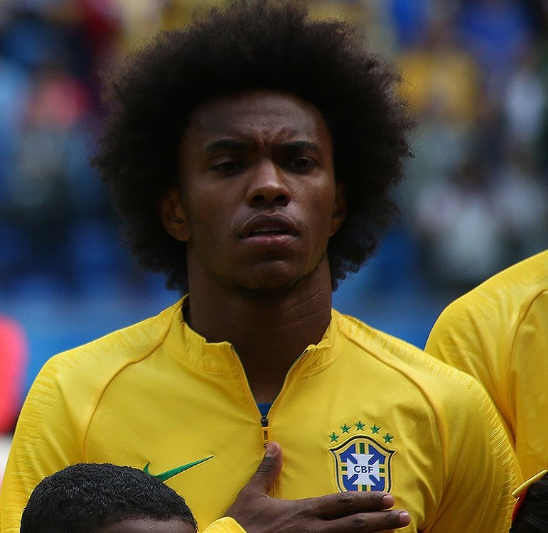 Neymar, Willian Borges da Silva